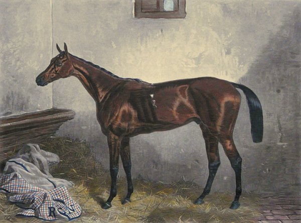 Painting of Epsom Derby winner Macaroni (horse), by Harry Hall, 1863